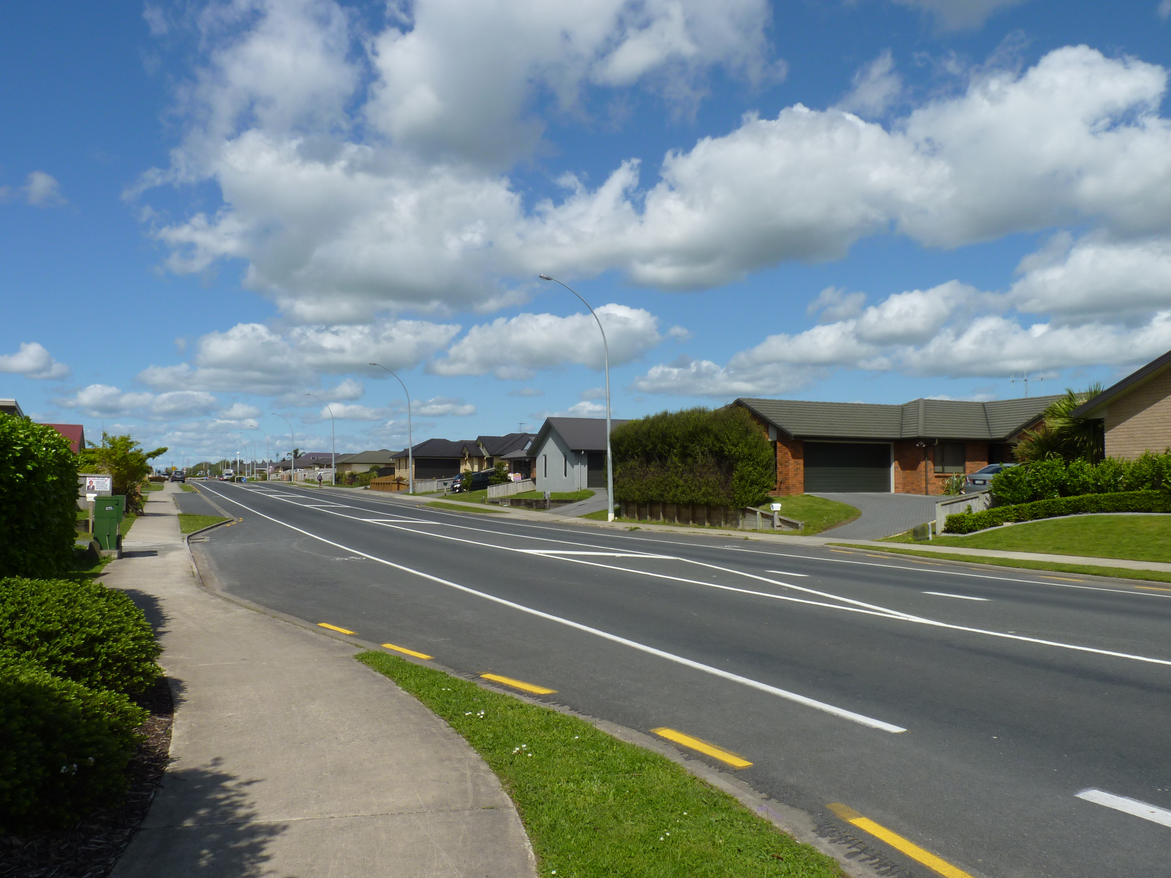 Thomas Rd, Rototuna, northeast Hamilton.